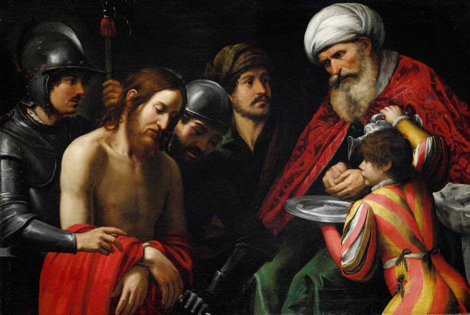 Cristo davanti a Pilato, oil on canvas painting by Giuseppe Vermiglio